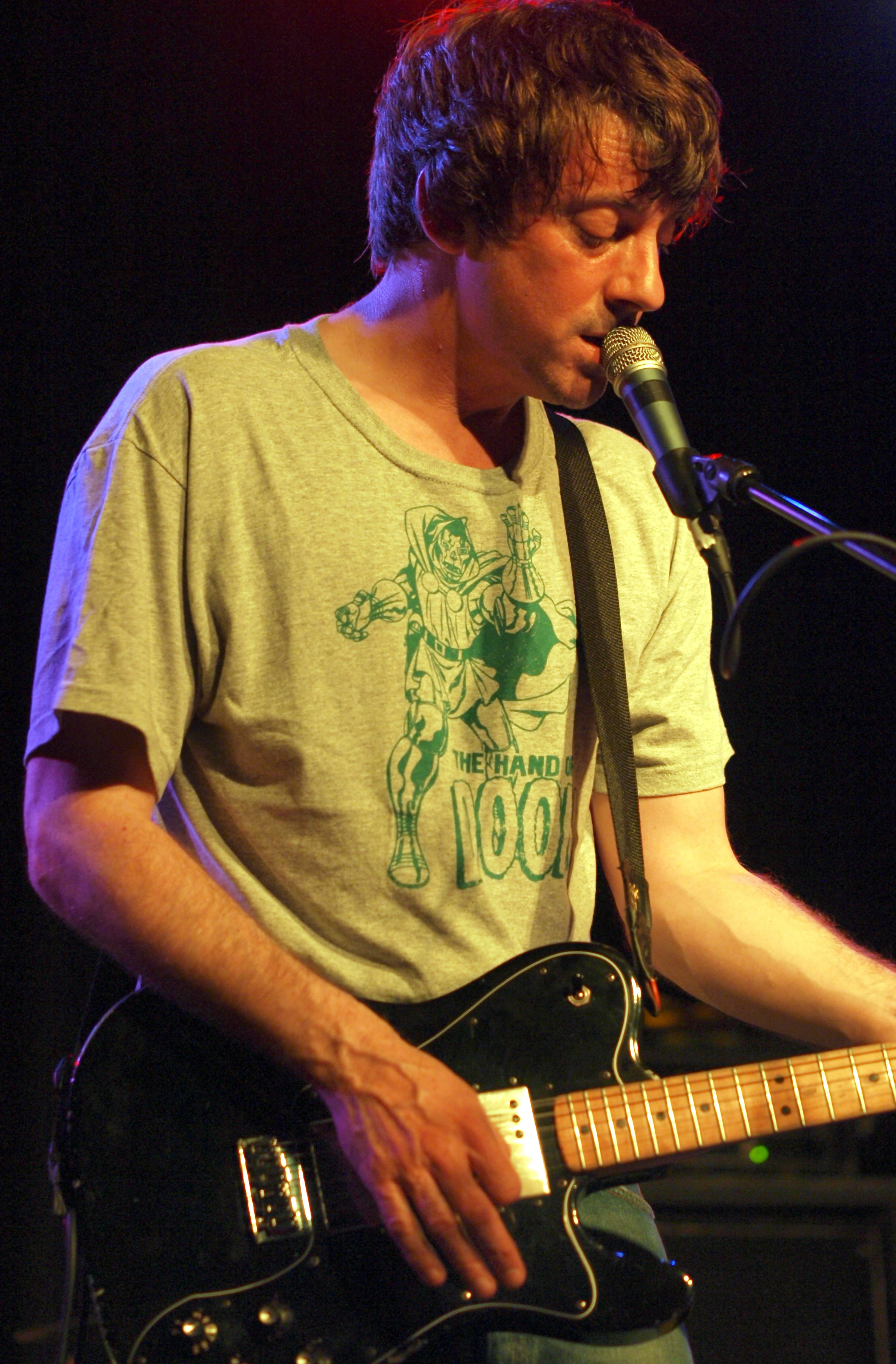 Graham Coxon in concert